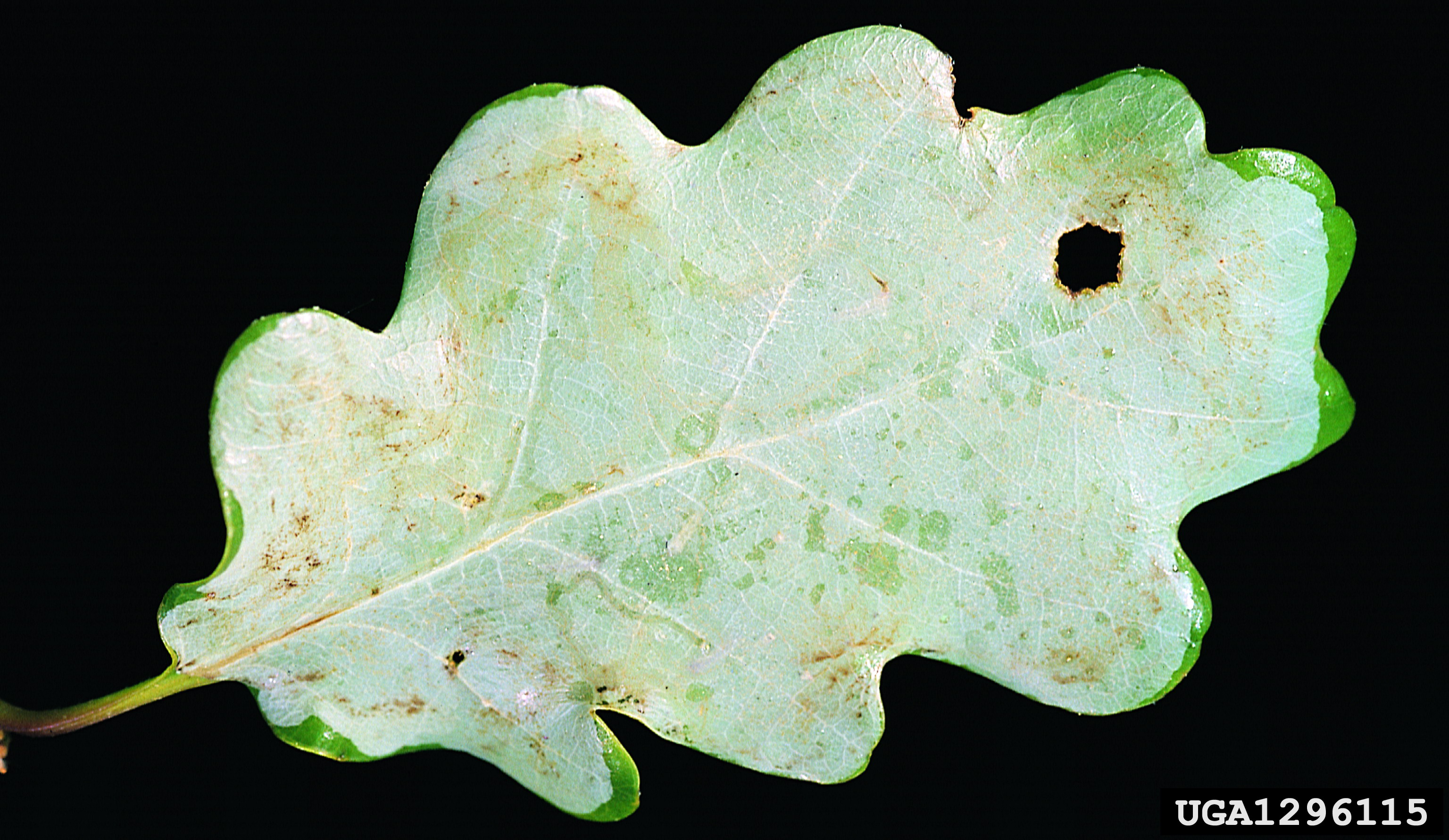 Acrocercops brongniardella damage